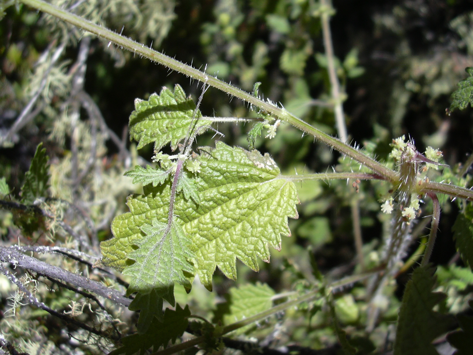 Hesperocnide sandwicensis (branch). Location: Hawaii, Puu Mali